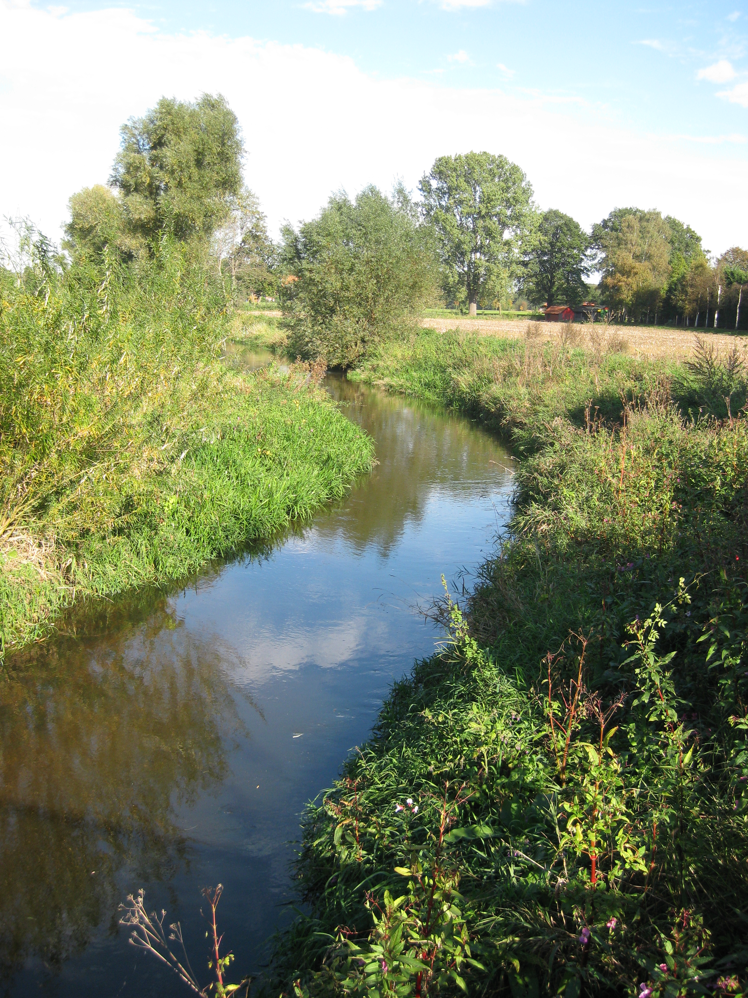 Langenberg - Glenne river at the southern border point and point of lowest elevation of the municipality